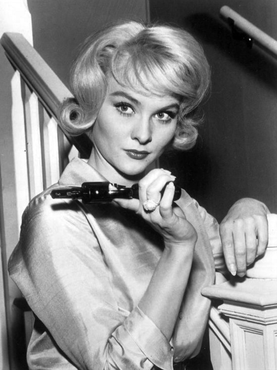 Photo of Diane McBain as Daphne Dutton from the television program Surfside 6.